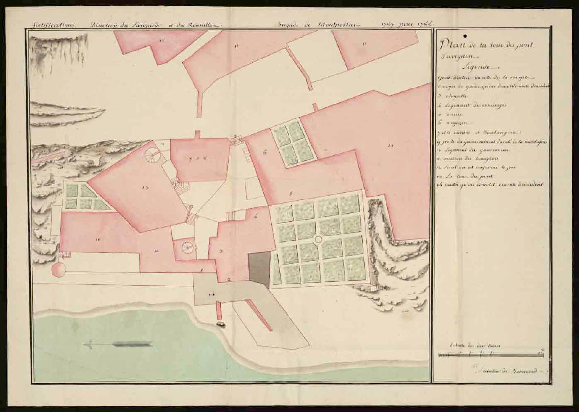 Plan showing the Tour Philippe-le-Bel and the surrounding buildings in Villeneuve-lès-Avignon